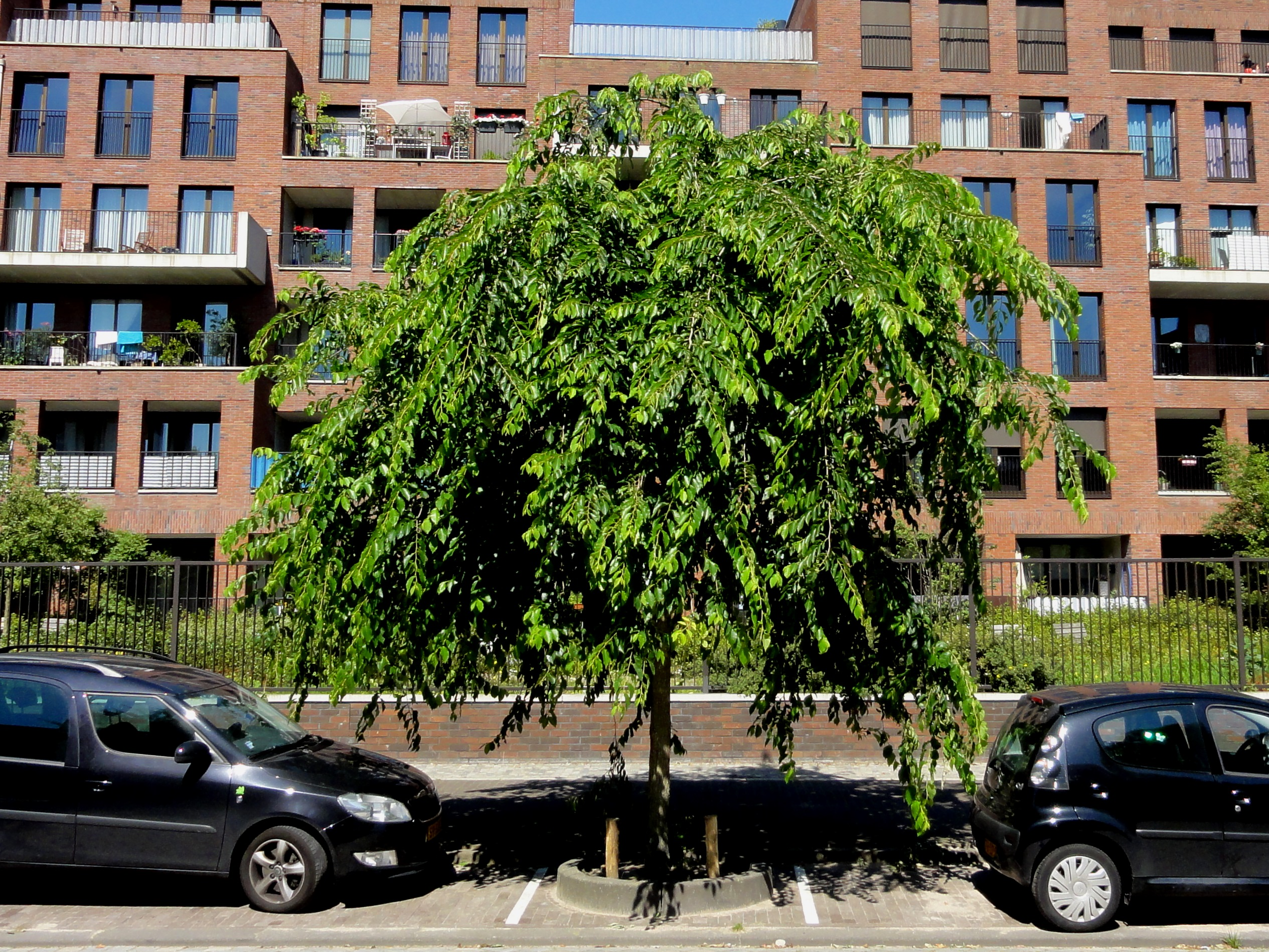 Photo of Ulmus hybrid cultivar 'Cathedral' in Jean Desmetraat, Amsterdam